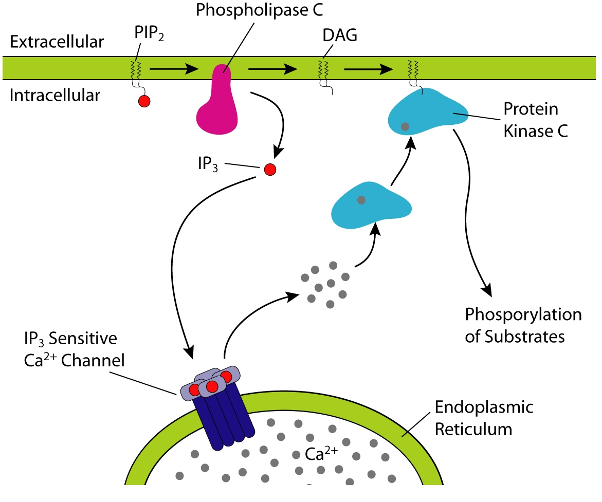 by Erik Korte - "PIP2 cleavage by PLC to release IP3 and DAG"